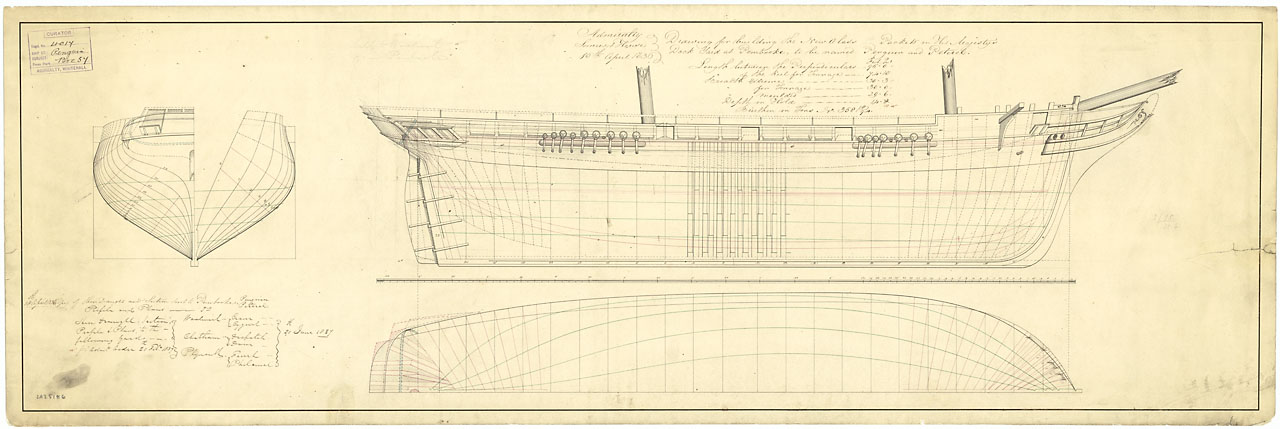 PENGUIN 1838 lines